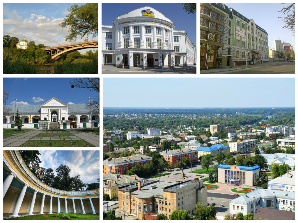 Montage of pictures of Bila Tserkva used for the specific article. Composition of these pictures: File:Вулиця Гординського (Біла Церква)4.jpg, by Frank Treak. File:Споруда БНАУ.jpg, by Falin. File:Міст через р.Рось у Білій Церкві.jpg, by User:Роман Наумов, cc-by-sa 1.0. File:Торгові ряди (Біла Церква) 01.jpg, by Kiyanka. File:Колонада «Луна» у Білій Церкві.jpg, by User:Роман Наумов, cc-by-sa 1.0. File:Панорама Торгової площі (Біла Церква).jpg, by User:Роман Наумов, cc-by-sa 1.0.